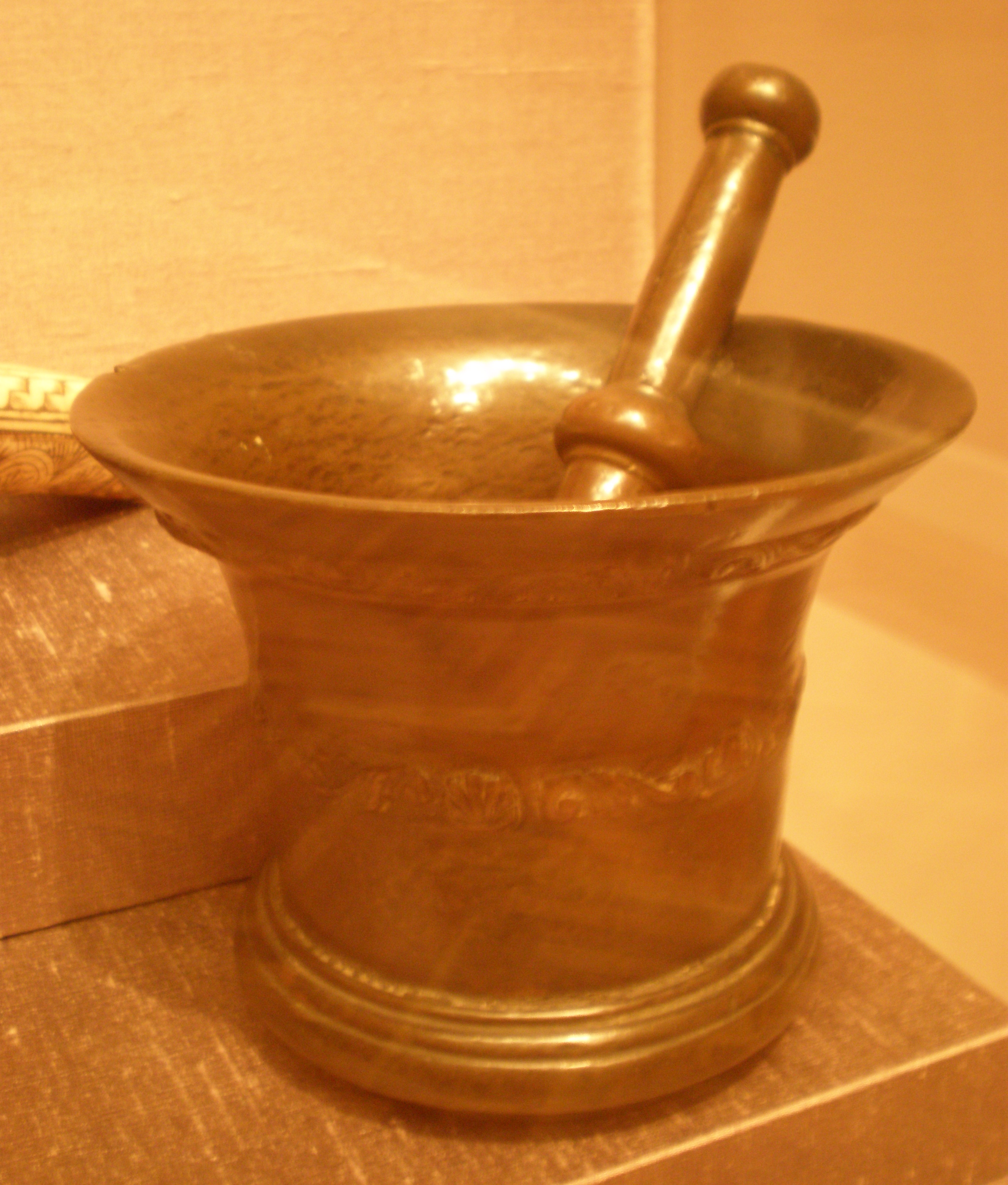 A 16th century Italian mortar and pestle made of bronze. On display at the California Palace of the Legion of Honor in San Francisco. 75.18.51a-b